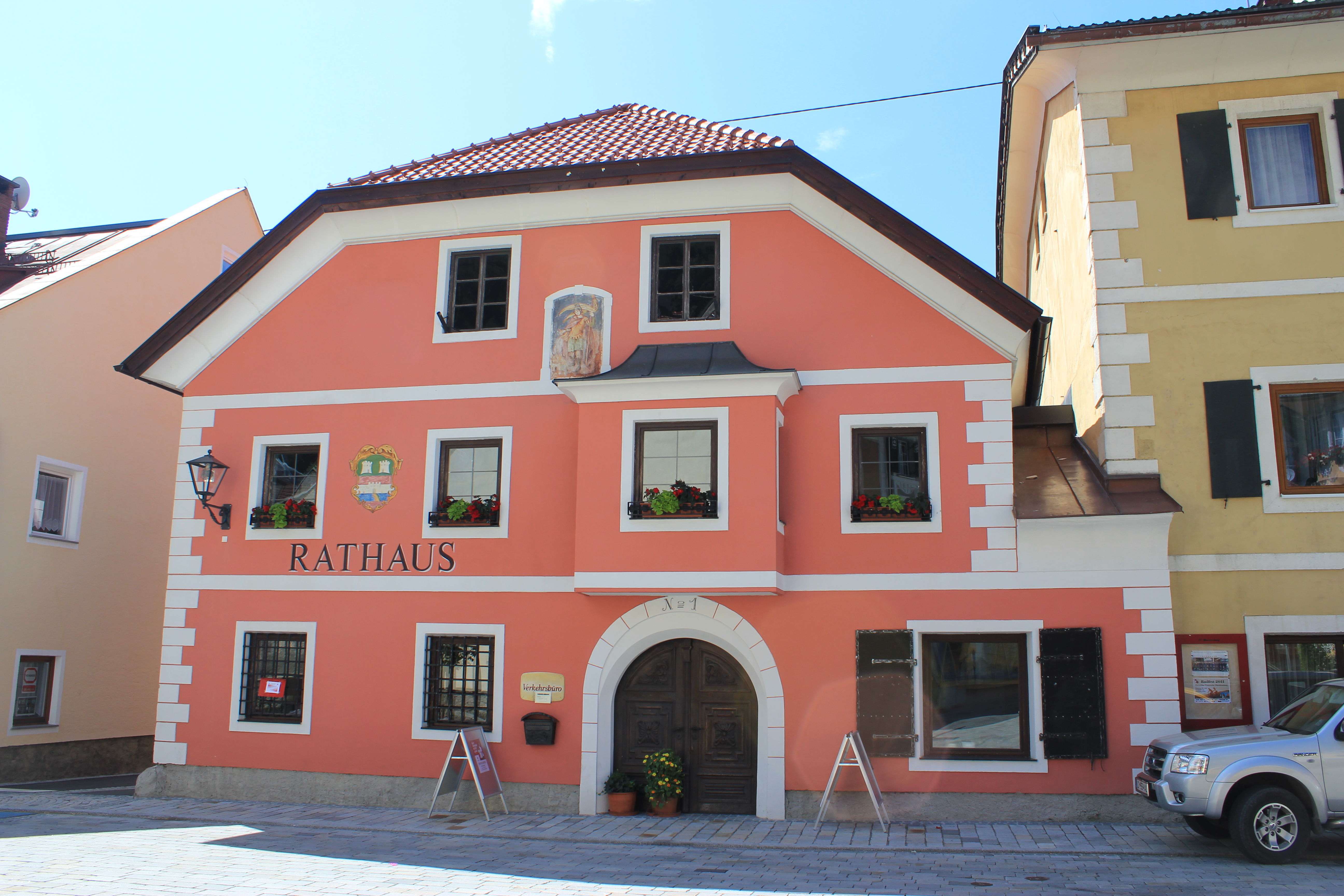 Townhall in Oberdrauburg